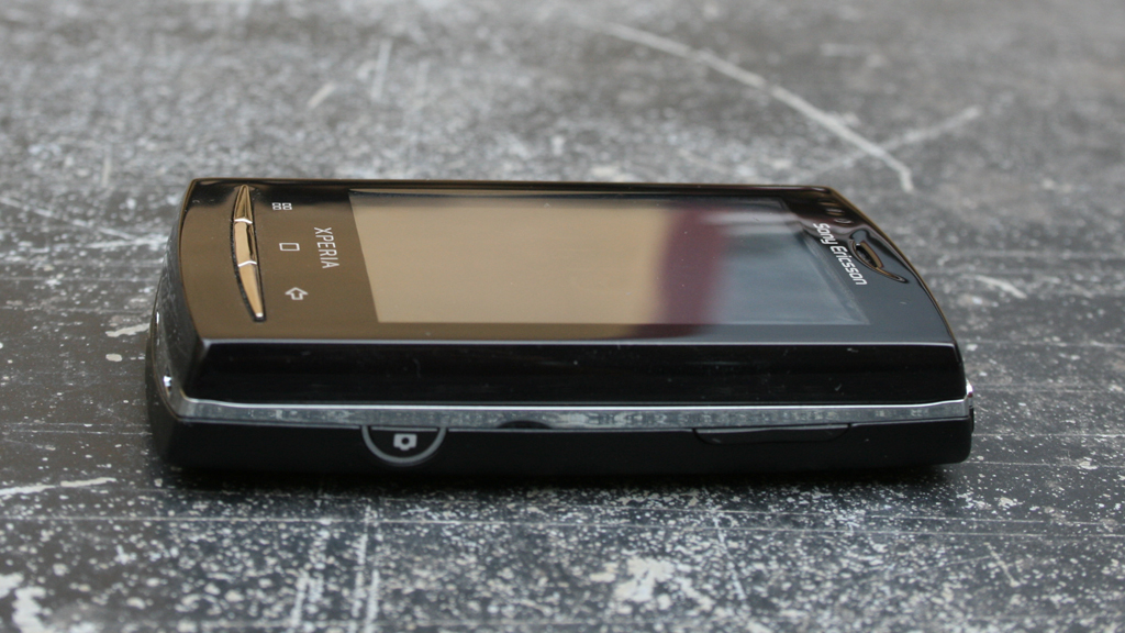 Sony Ericsson Xperia X10 Mini Pro